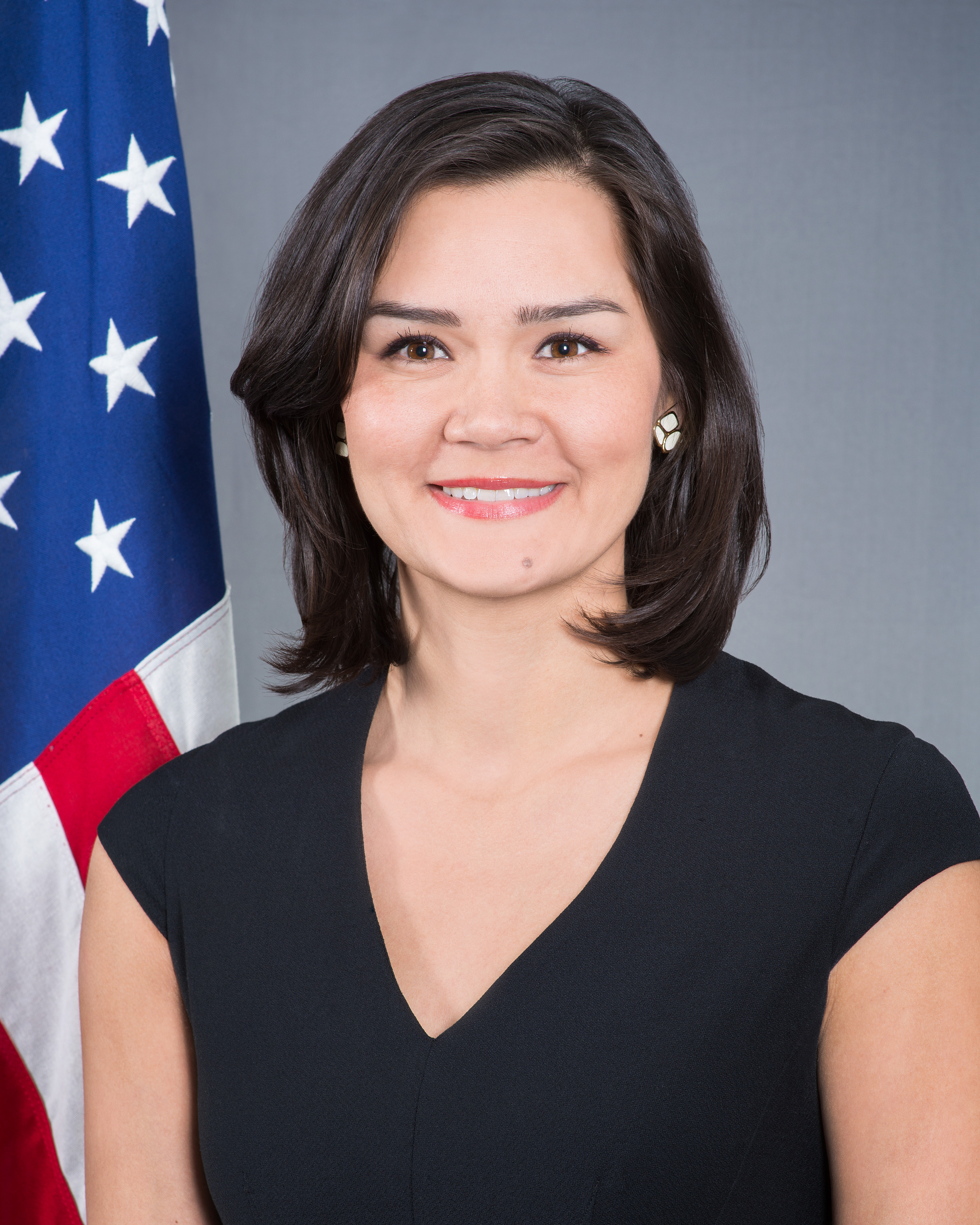 Michelle S. Giuda, Assistant Secretary of State for Public Affairs